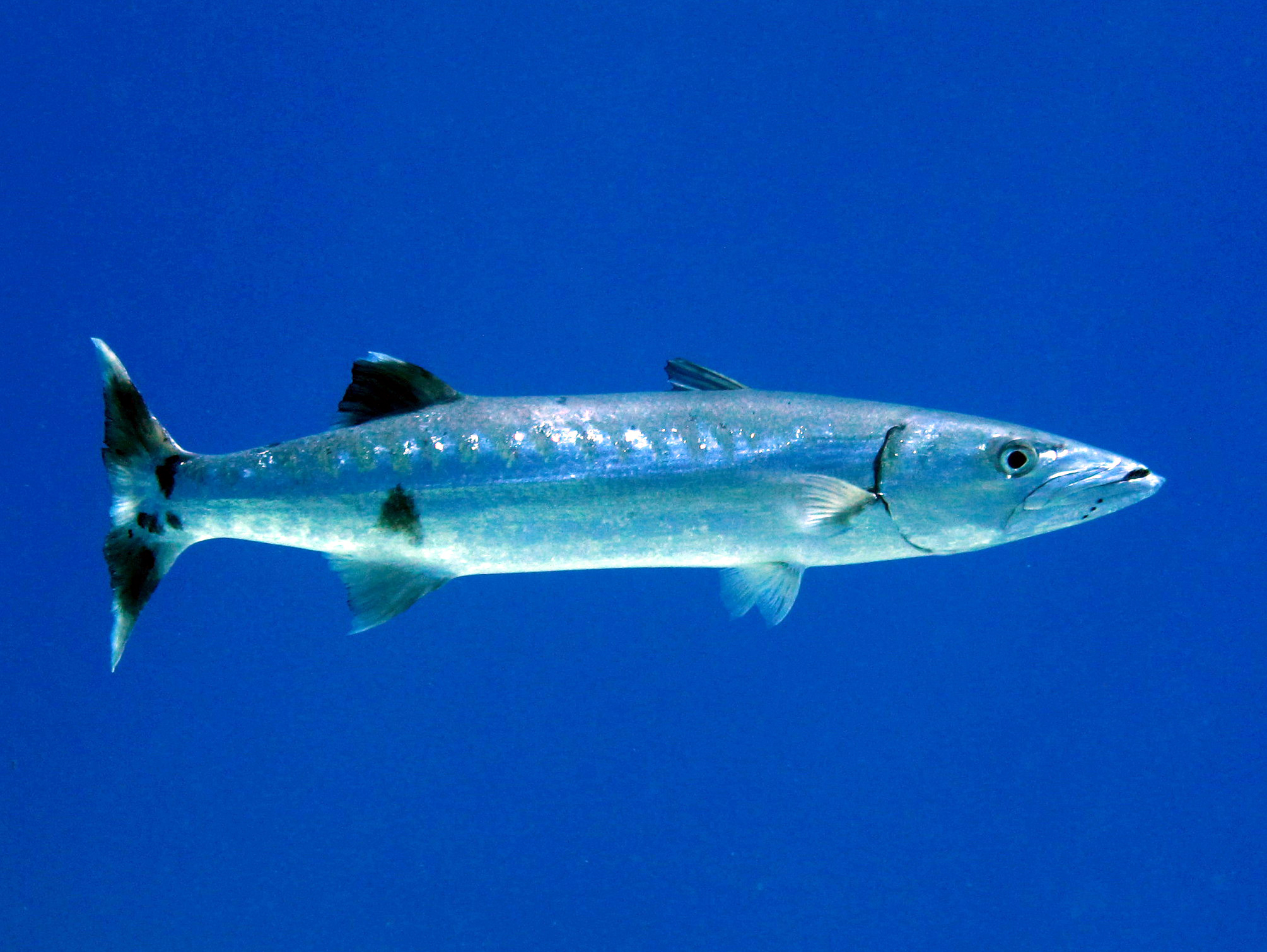 Sphyraena barracuda in French Polynesia